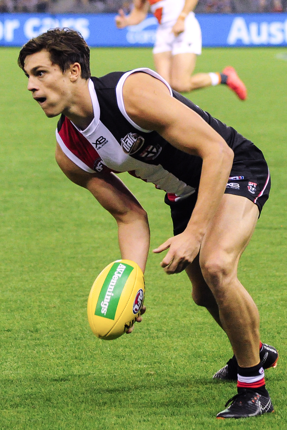 Jack Steele during the AFL round five match between St Kilda and Greater Western Sydney on 21 April 2018 at Etihad Stadium in Melbourne, Victoria.